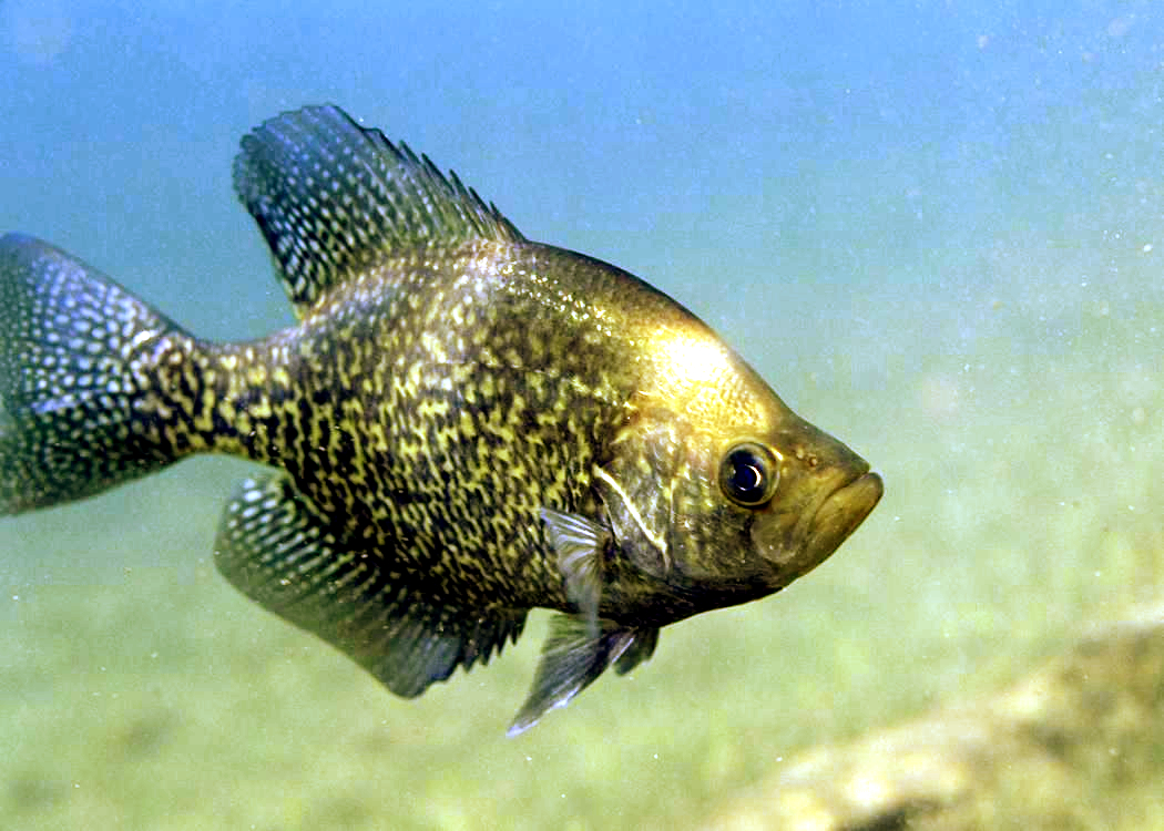 Image title: Black crappie fish Image from Public domain images website